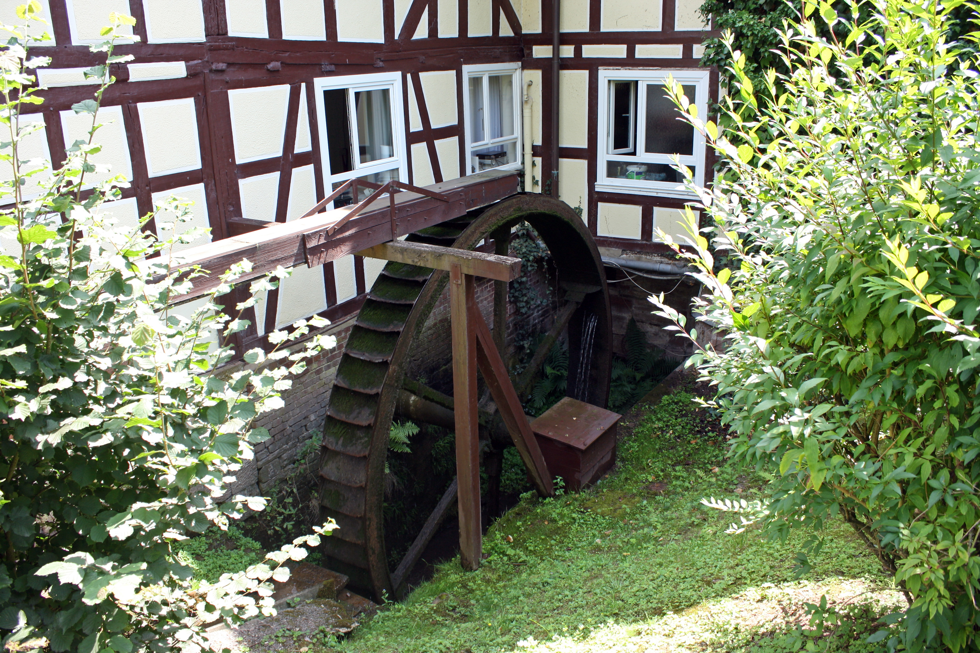 Water wheel of Dammühle in Wehrshausen, Marburg